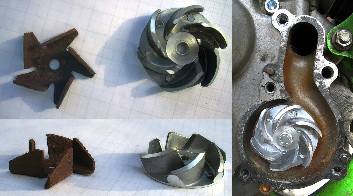 Radial impeller water pump Kawasaki KX 125: On the left the model of 1988 On the right the model of 2005